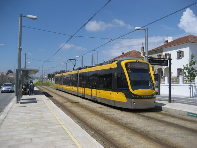 The Santa Clara stop of the Metro do Porto